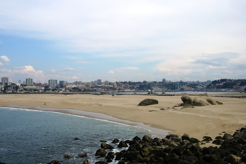 "Cabedelo" at the mouth of the river Douro, in Portugal